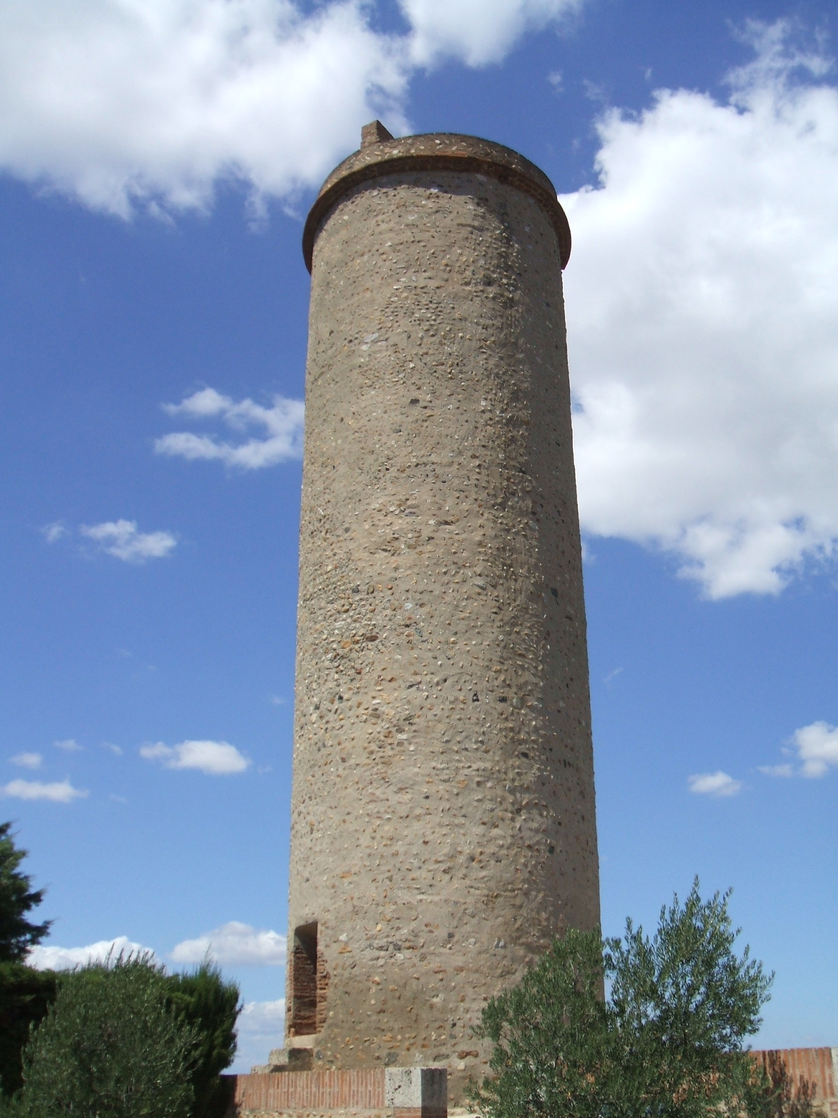 Château Roussillon : tower of the old castle (XIIIth and XIVth centuries)